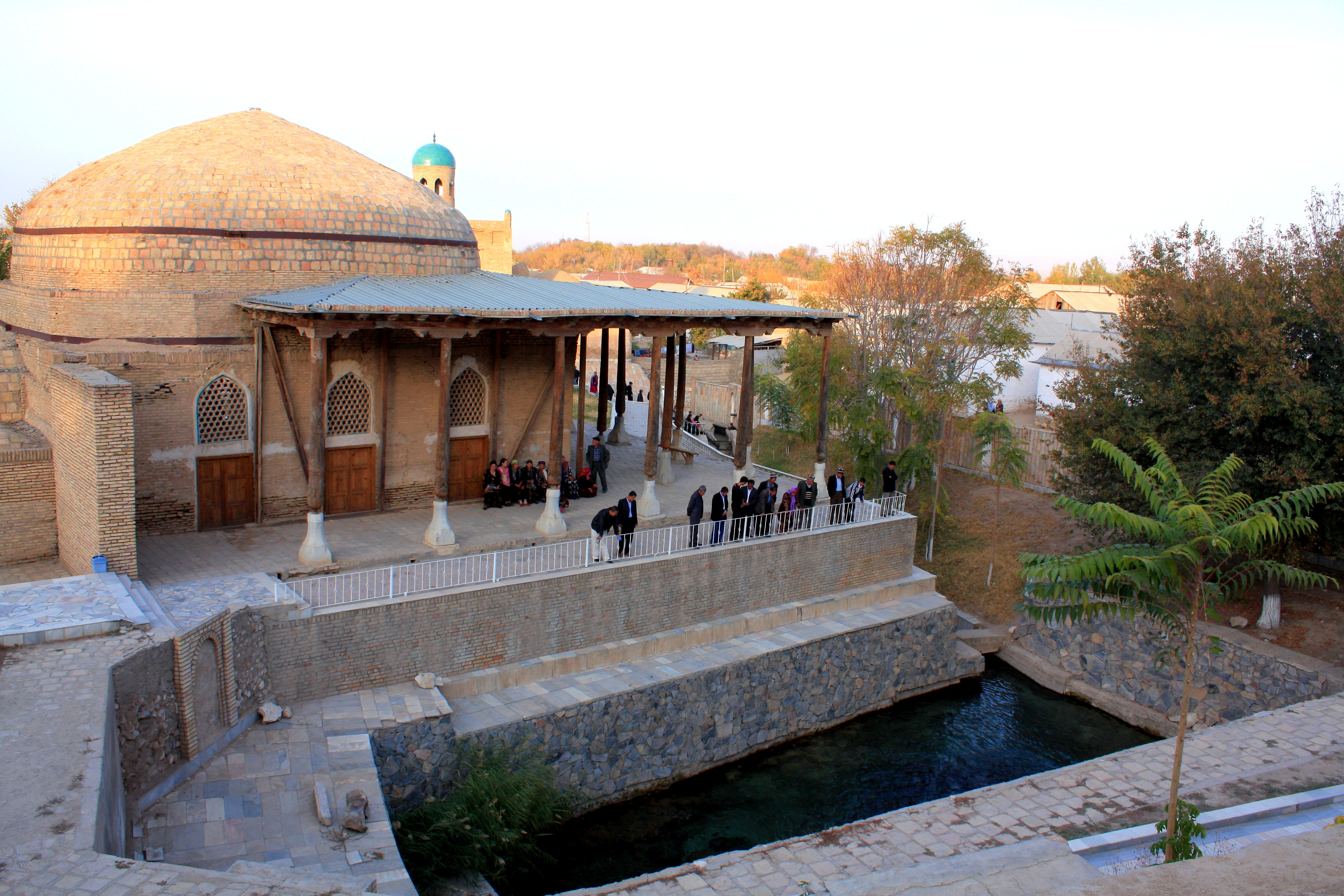 Mosque in the pilgrimage centre of Nurota. The source is considered sacred by Muslims.